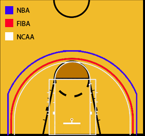 Basketball court with different 3 point lines, made with Photoshop CS2